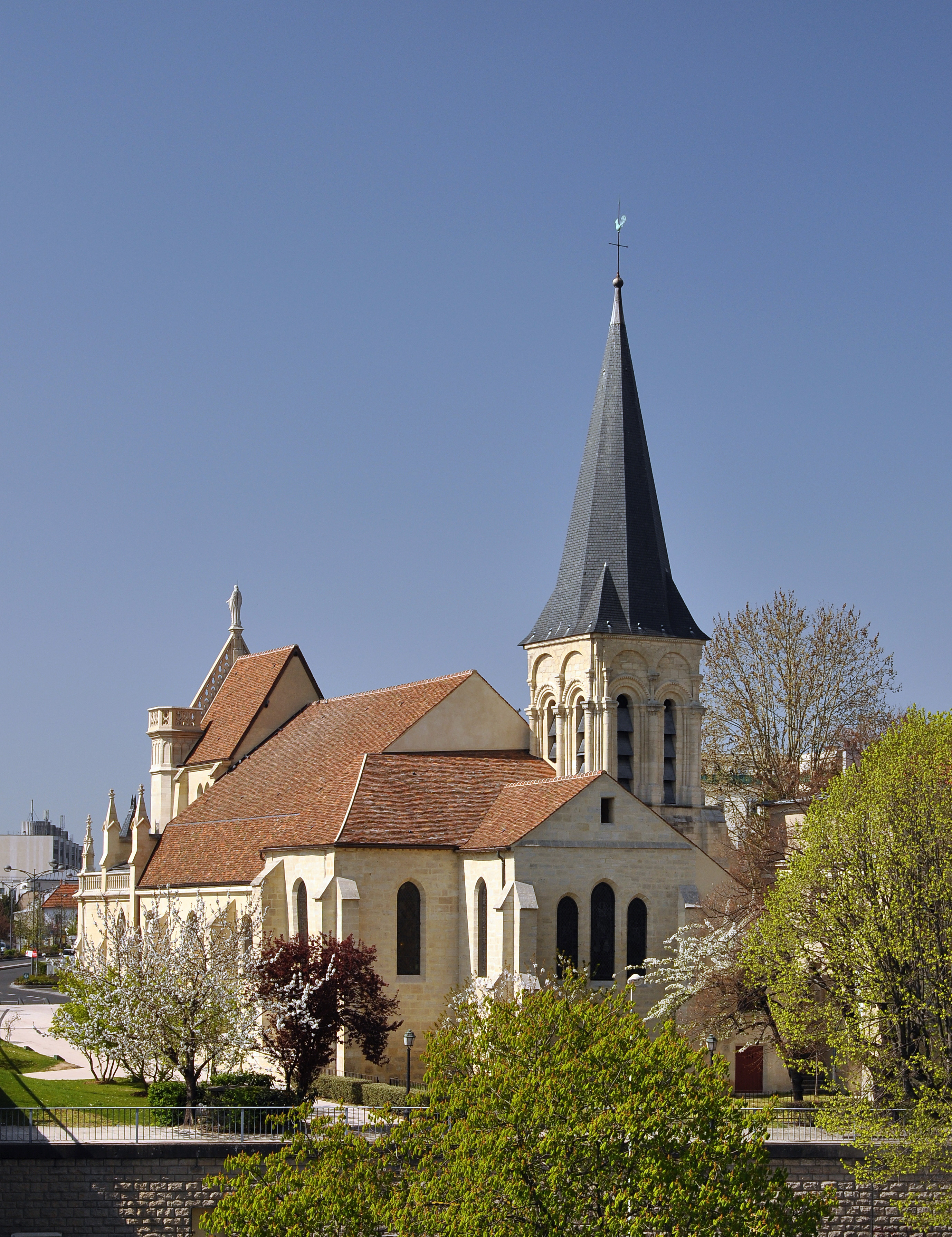 The church of Notre-Dame in Chatou, department of Yvelines, France.